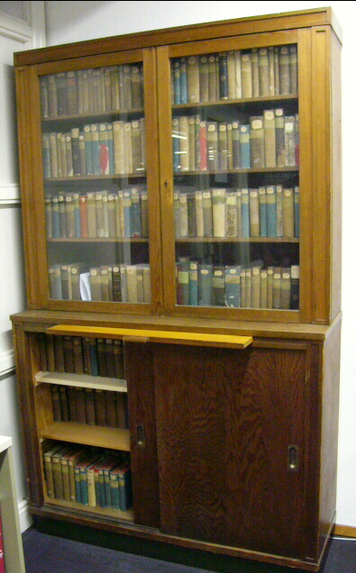 Leers'sche Bibliothek